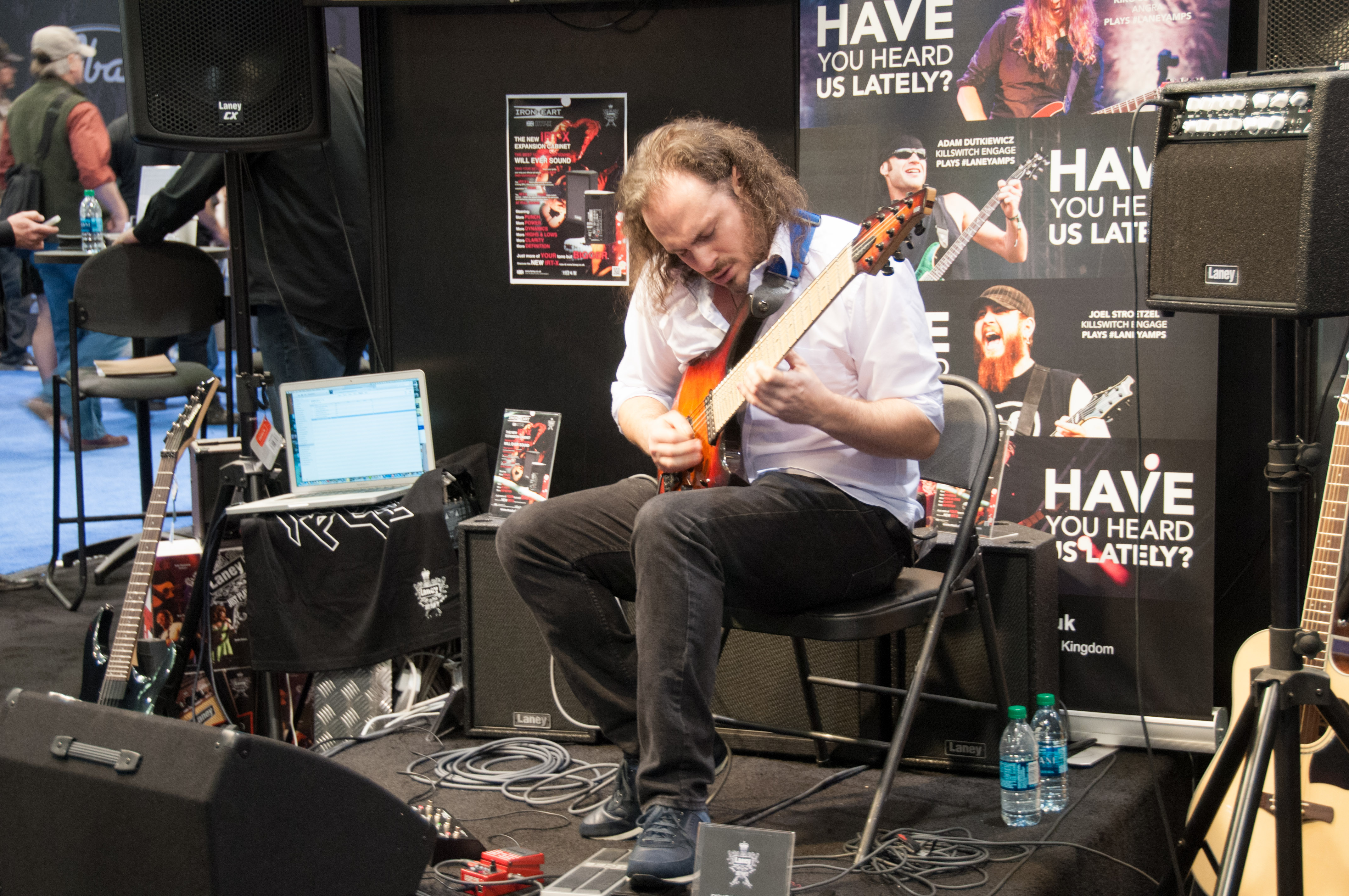 The amazing Alex Hutchings doing this thing at the Laney booth